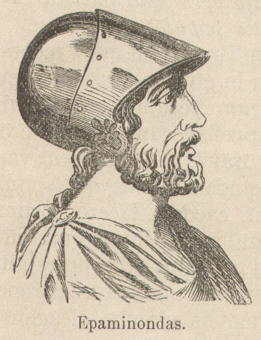 The illustration of Epaminondas